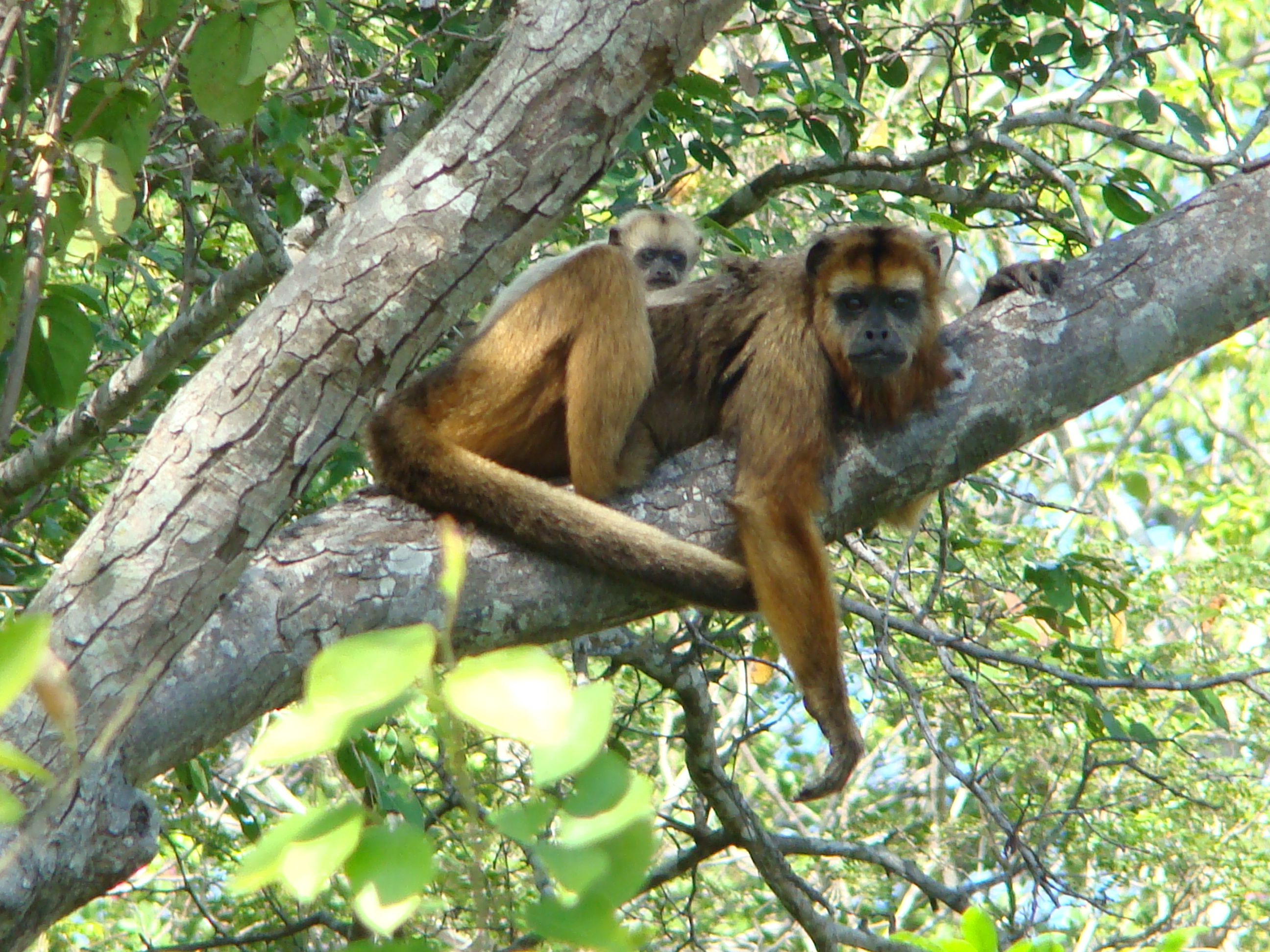 Howler monkeys, mom and cub resting at the Serra do Amolar, Pantanal wetland